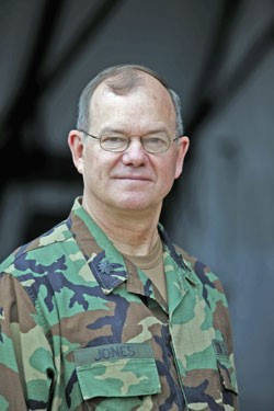 Millington, TN - Millington Mayor Terry Jones is among more than 200 players from the Tennessee State Guard participating in Operation Vigilant Guard 08. Jones serves as civilian-military affairs officer with the Tennessee State.